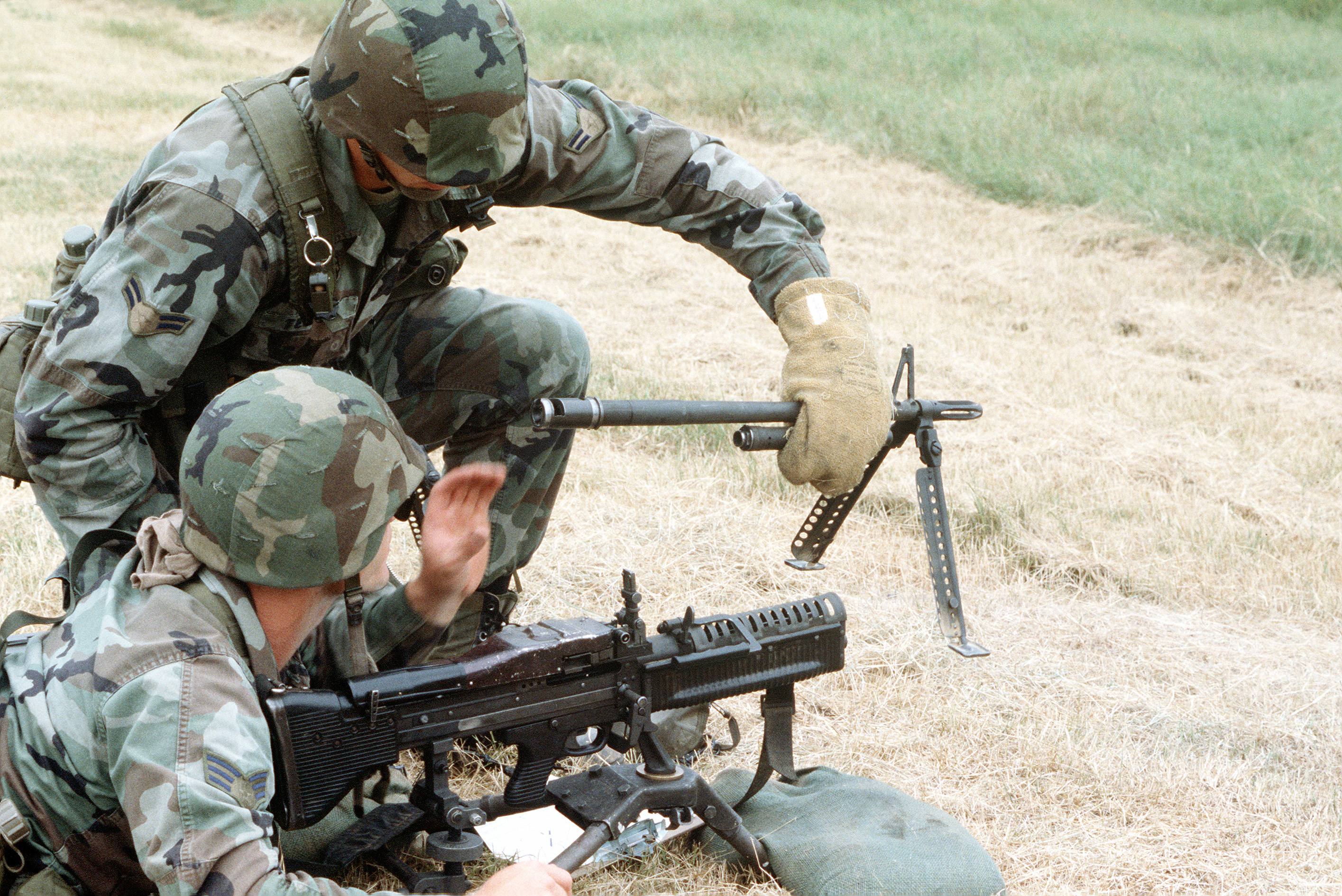 An M60 machine gun team changes barrels before engaging their last target during the DEFENDER CHALLENGE '88 competition.